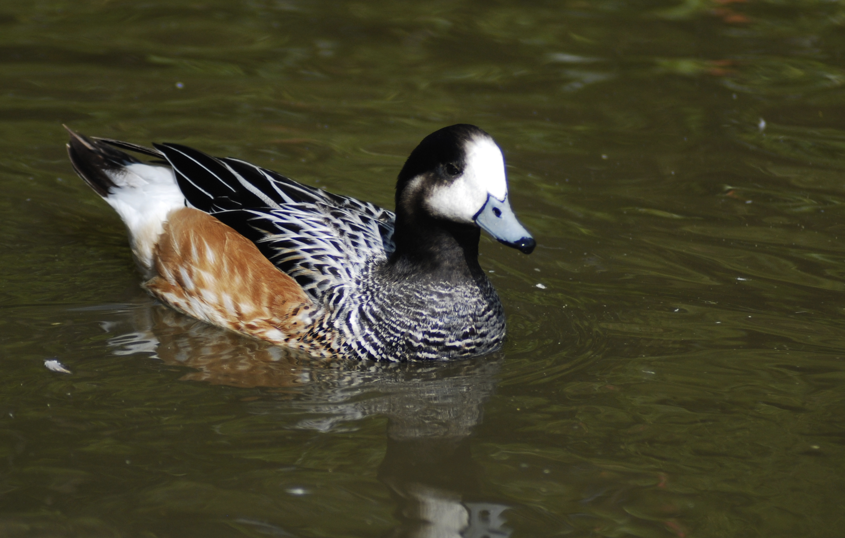 Chilöe Wigeon (Anas sibilatrix)